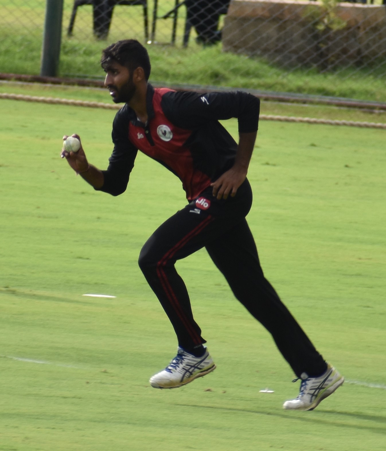 Indian cricketer Chintan Gaja during the 2019-20 Vijay Hazare Trophy in Rajanukunte, Bangalore.